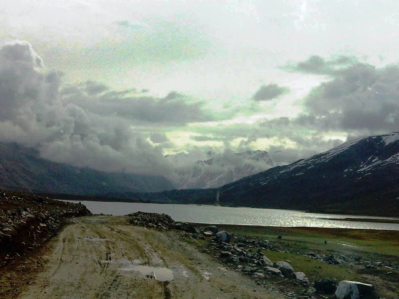 Shandur Top Lake -Highest Polo Ground